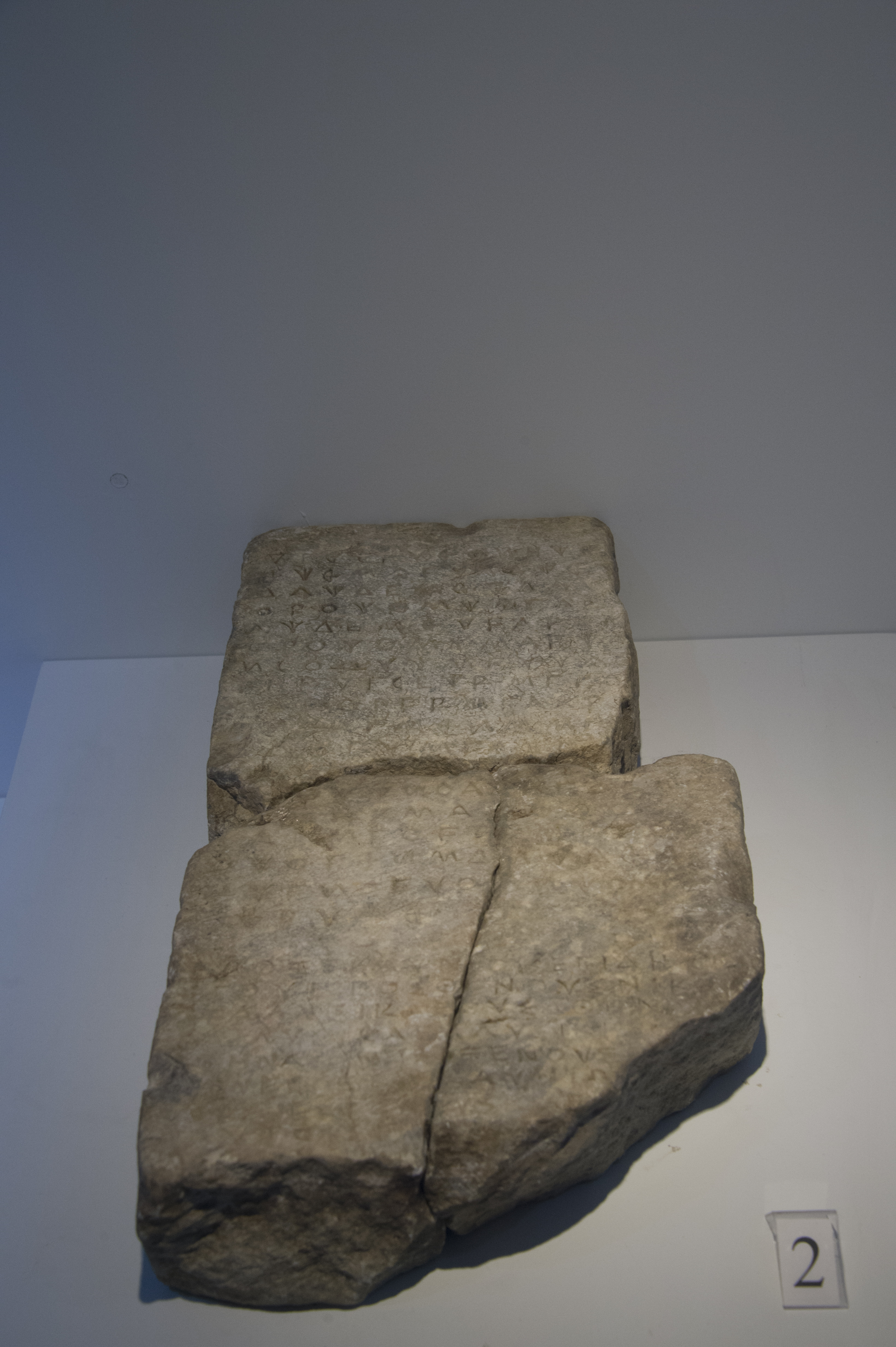 Bilingual inscription from Caunos. It was found in three fragments in 1996, the discovery causing great excitement. It was in two languages, Carian above and Greek below. The Carian language belongs to an ancient Anatolian family of languages, and deciphering it was hard. The current text contains an almost complete Carian or more correctly Caunian text. It is concerned with an honour given to two Athenians by a degree of the people of Caunos.